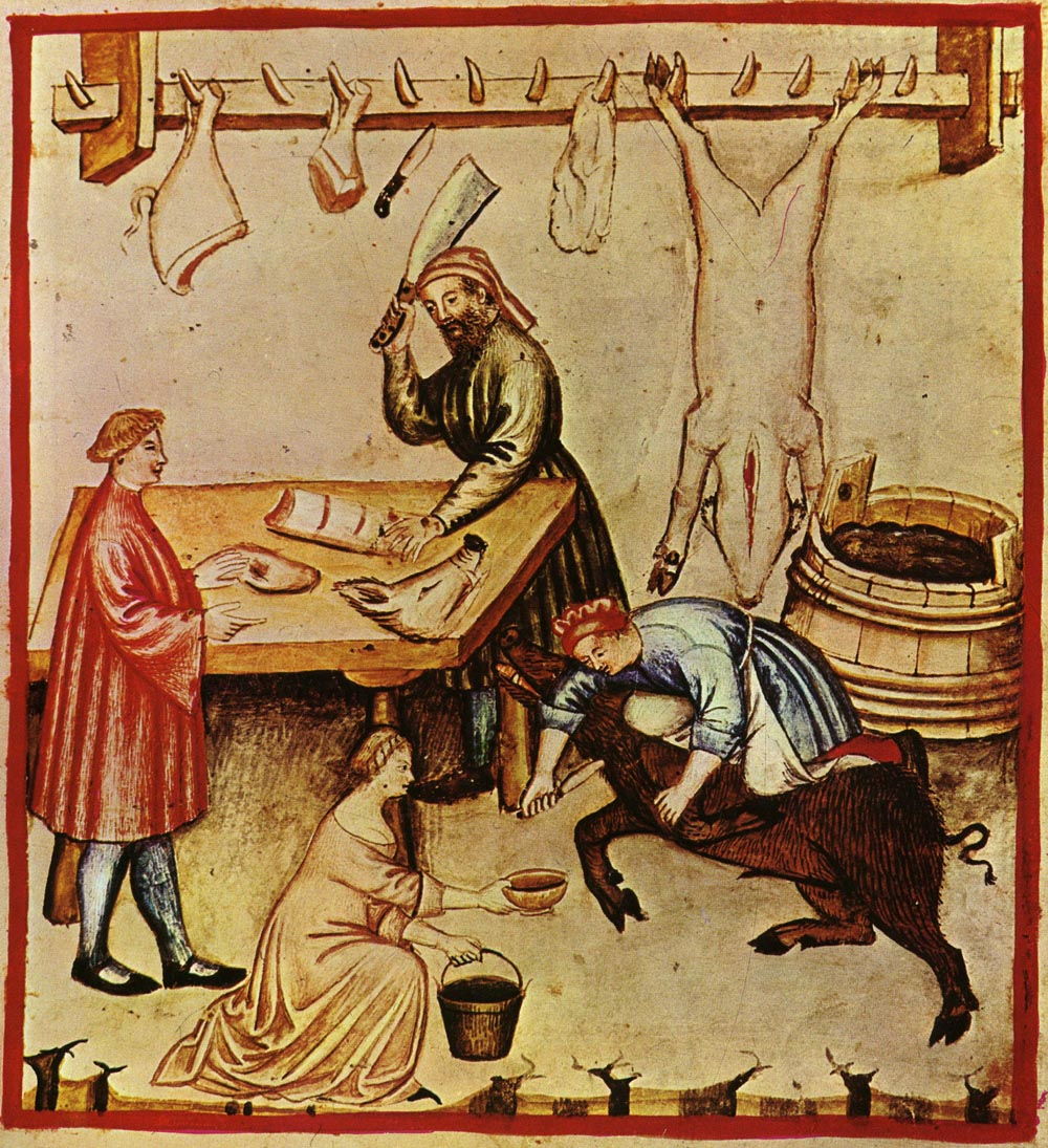 Pork meat, from Tacuino Sanitatis.